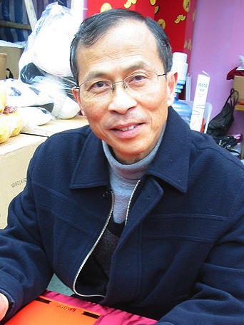 Jasper Tsang at Victoria Park New Year Fair 2009.